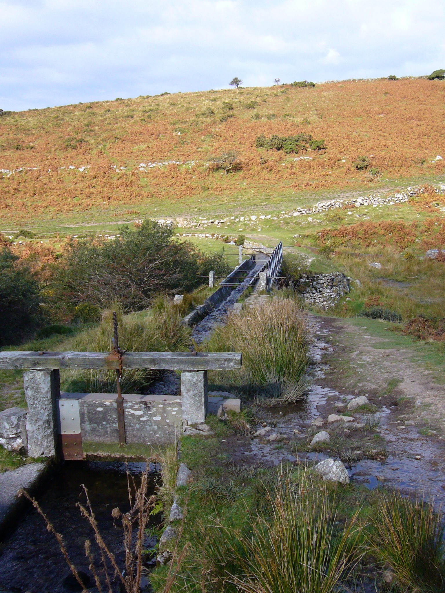 The Devonport leat aqueduct over the river Meavy. This image is looking toward the location of this image.